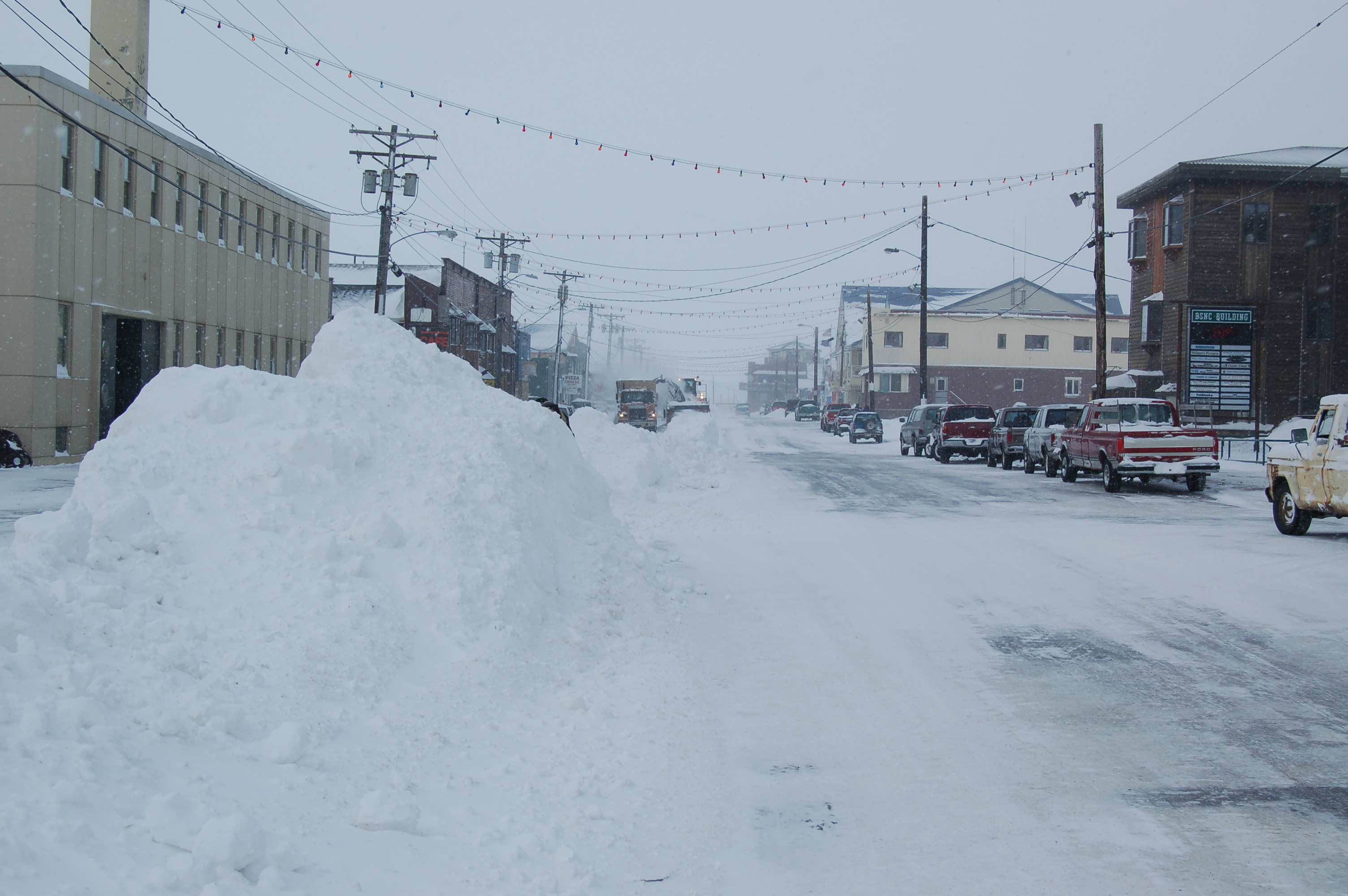 front street Nome Alaska, this is the view finishing mushers in the Iditarod will see. Hopefully minus the snow berm...